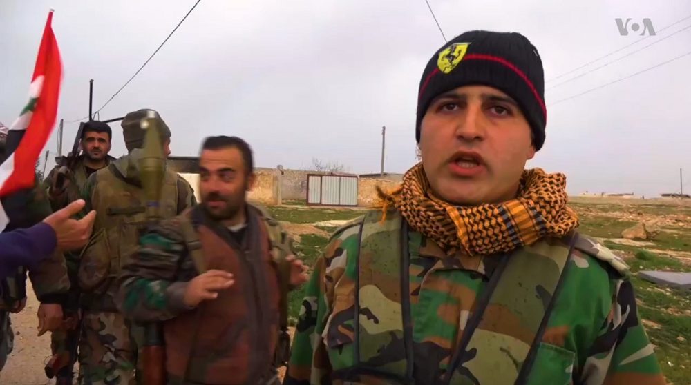 Syrian Army soldiers near Manbij, acting as peacekeepers to deter Turkey and the Syrian Democratic Forces from attacking each other.